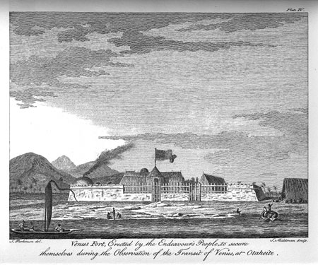 This is an image of a print entitled "Venus Fort, Erected by the Endeavour's People to secure themselves during the Observation of the Transit of Venus, at Otaheite." by Sydney Parkinson.